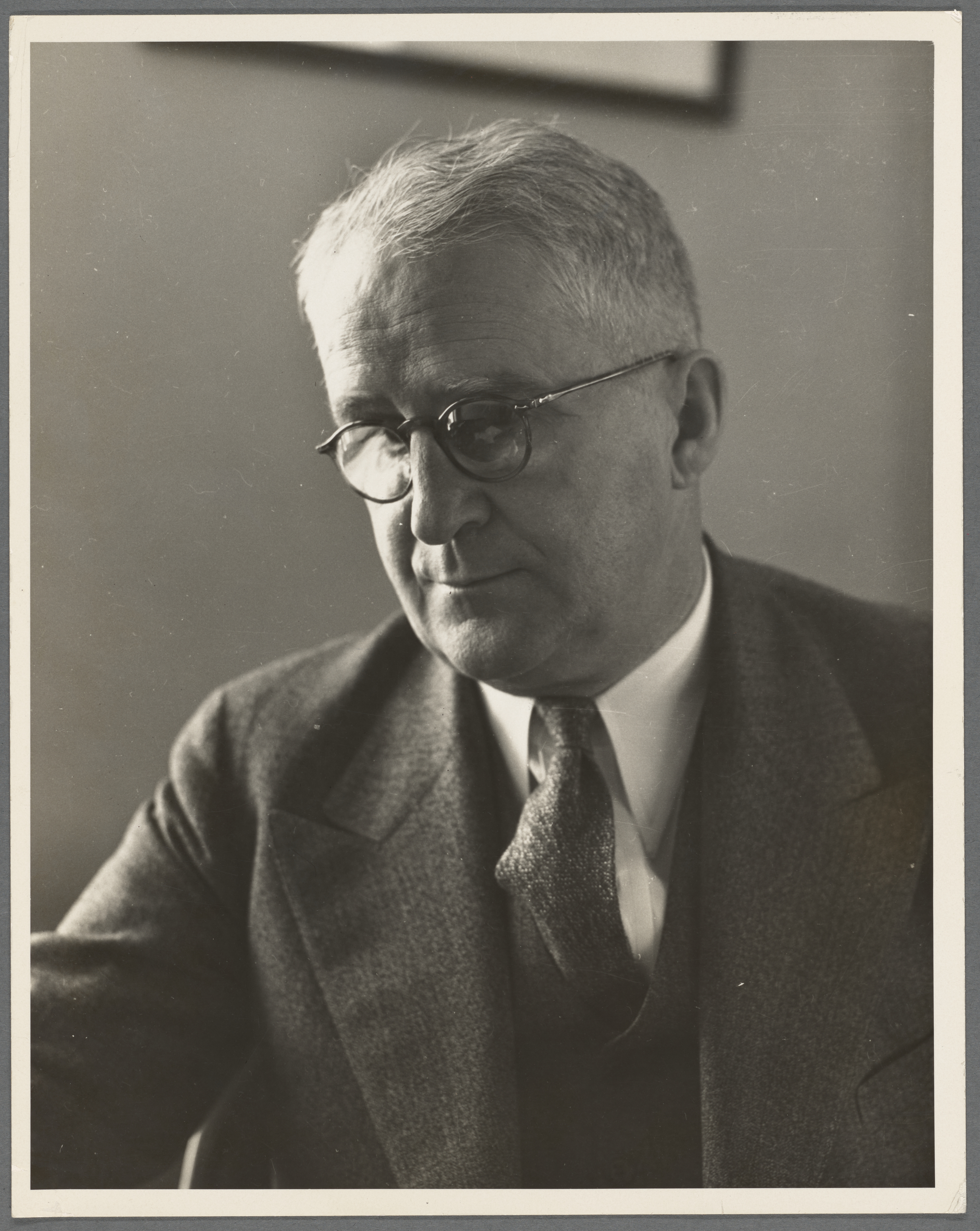 Walter E. Packard, Acting Director of the Rural Resettlement Division. FSA Photo by Dorothea Lange